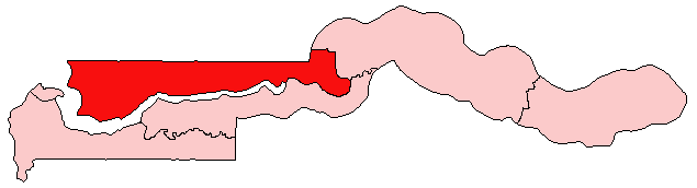 Map of The Gambia showing North Bank Division; created with the GIMP. Made by User:Acntx